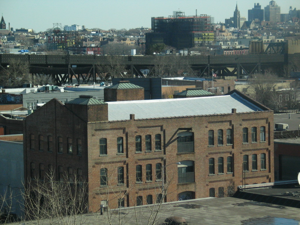 Holland Style factory building, located nearby Red Hook area.